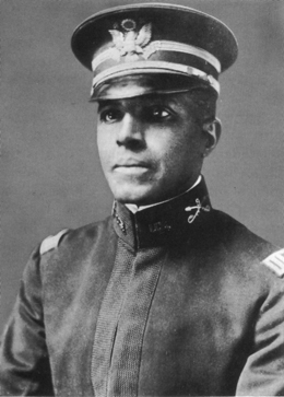 Portrait photograph of then-Captain Charles Young, 9th Cavalry. He was the third African American graduate of West Point, the first black U.S. National Park Service superintendent, the first African American military attaché, and the highest ranking black officer in the United States Army until his death in 1922.